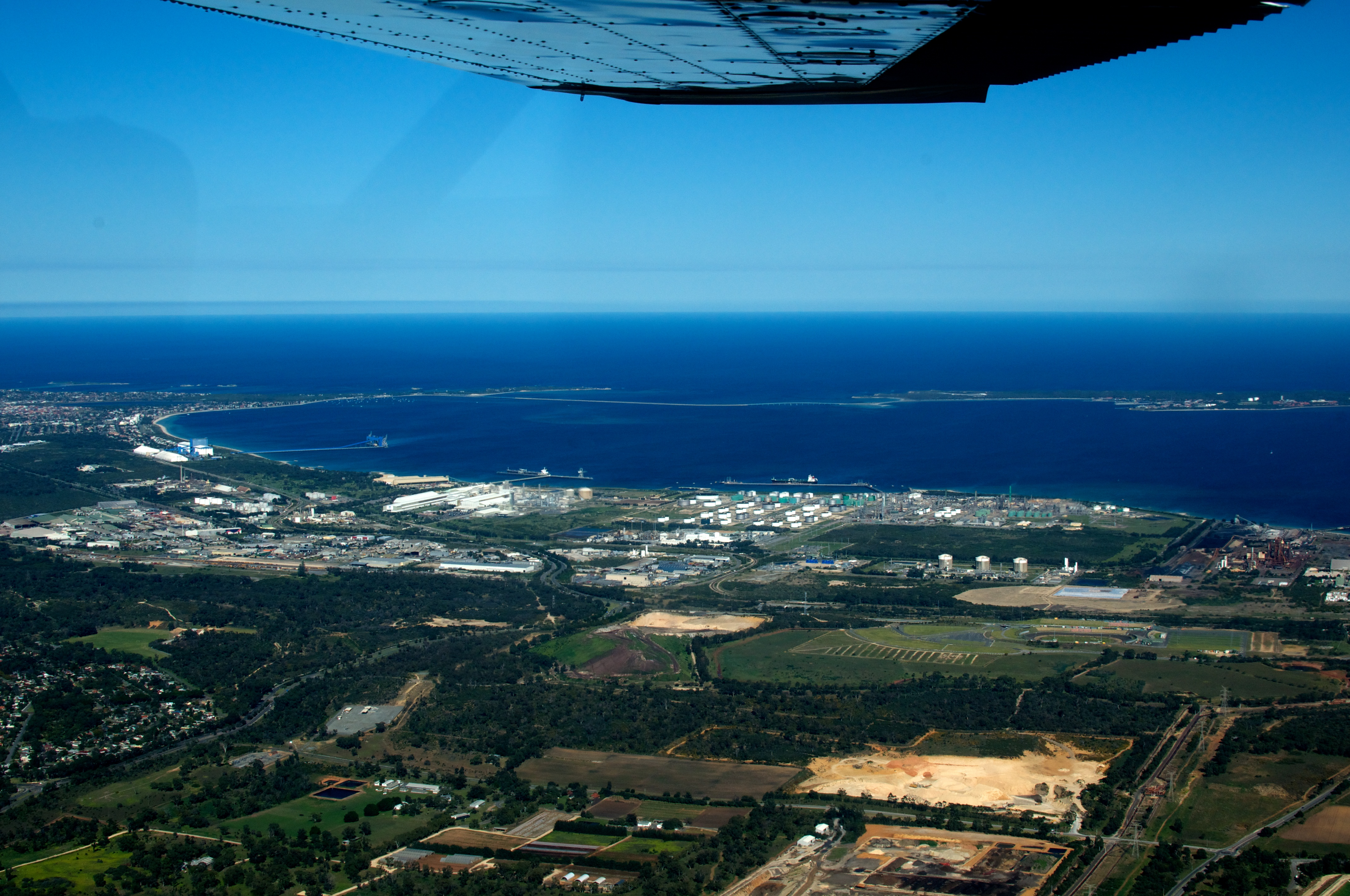 Cockburn Sound from the air, taken from over Hope Valley in a WSW direction. Garden Island is at the top right. Thomas Oval in western Medina is visible near the bottom left, while Abercrombie Road, Postans, can be seen along the bottom of the map.